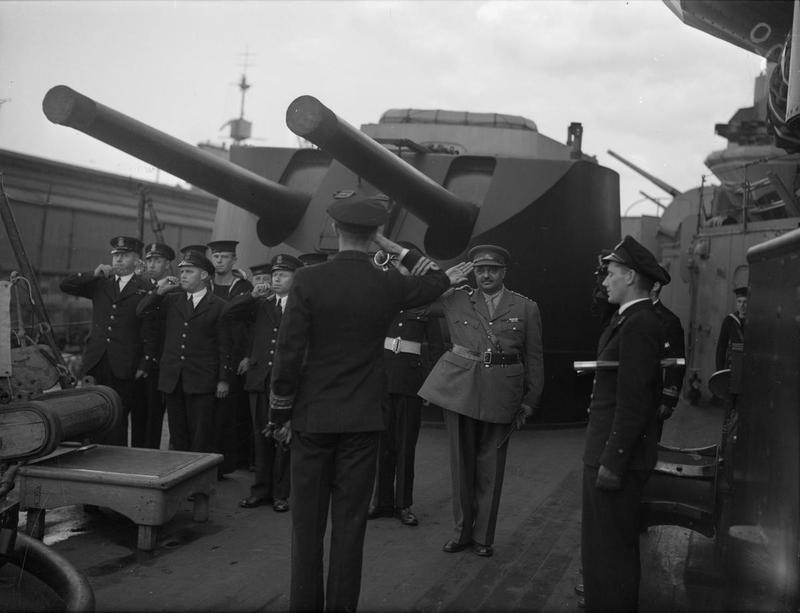 IWM caption : "HH THE JAM SAHEB OF NAWANAGAR, VISITS THE SCOTTISH PORTS OF CLYDE, ROSYTH AND BISHOPTON. 24 SEPTEMBER 1942. The Jam Saheb saluting the quarterdeck on leaving HMS NELSON. Comment : the background is a turret with twin BL 6-inch Mk XXII guns.